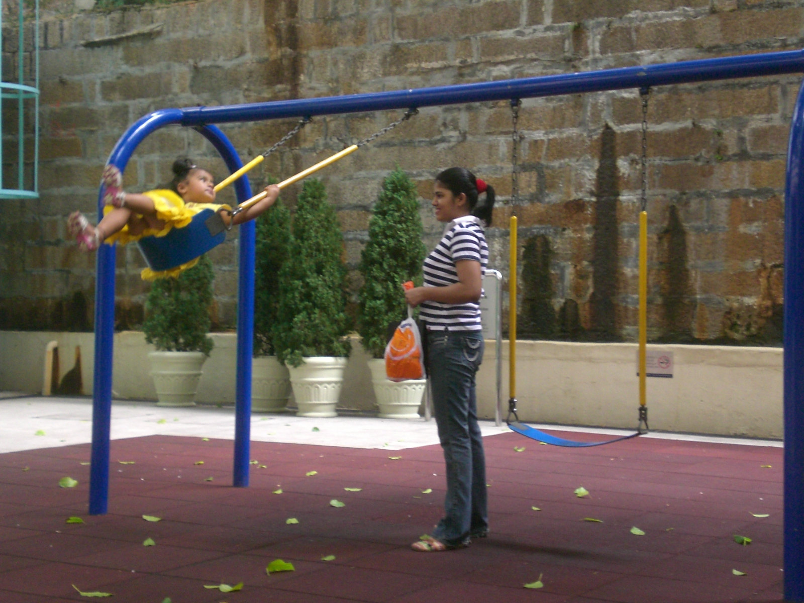 上環 兒童遊樂場 親子關係 秋千